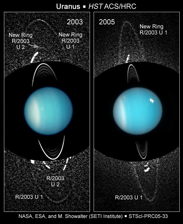 A copy of the original image description (which is on the page mentioned above): These composite images from several observations by NASA's Hubble Space Telescope reveal a pair of newly discovered rings encircling the planet Uranus. The left composite image is made from Hubble data taken in 2003. The new dusty rings are extremely faint and required long exposures to capture their image. The background speckle pattern is noise in the image. The outermost ring (R/2003 U 1) is likely replenished by dust blasted off a newly discovered satellite called Mab, embedded in the ring and visible as a bright streak at the top of the outer ring. The new outermost ring is twice the radius of the previously known ring system around Uranus, as seen near image center. (The inner rings are much brighter, so no noise is visible in the background). Approximately halfway between the outermost ring and inner ring system is a second newly discovered ring (R/2003 U2). Only a faint segment of it appears at the 12:00 o'clock position. Because of the long exposures, the moons are smeared out and appear as arcs within the ring system. In the image at right, taken two years later, the rings appear more oblique because Uranus has moved along its solar orbit. The planet Uranus itself is approaching spring equinox, when the Sun will be directly shining over the planet's equator in 2007. Cloud bands and storms are becoming more pronounced in the atmosphere. A bright storm appears at northern latitudes in the 2005 images. The images were taken with the Advanced Camera for Surveys, using a clear filter.